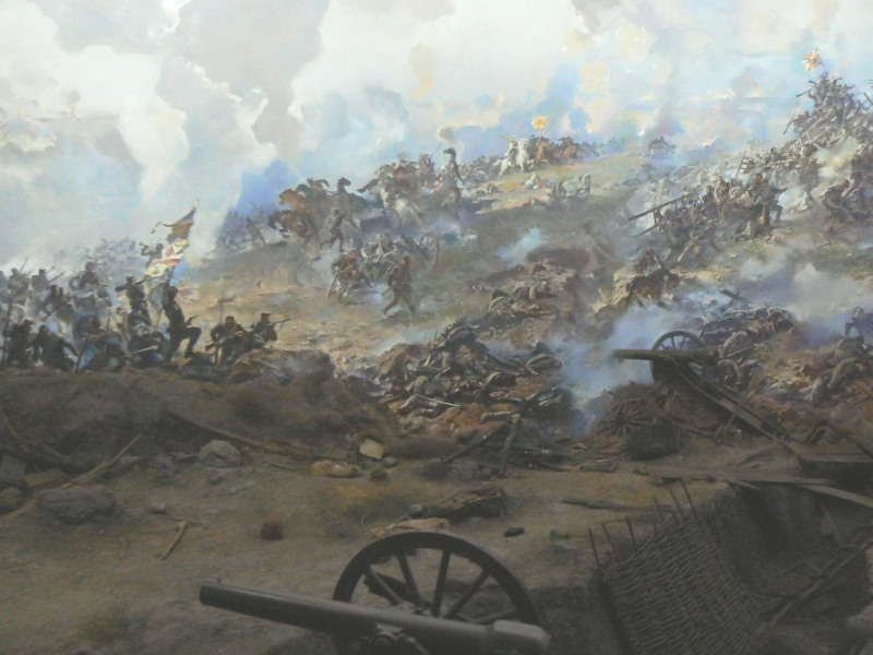 Photo from the Panorama "Pleven epopee 1877", Pleven, Bulgaria